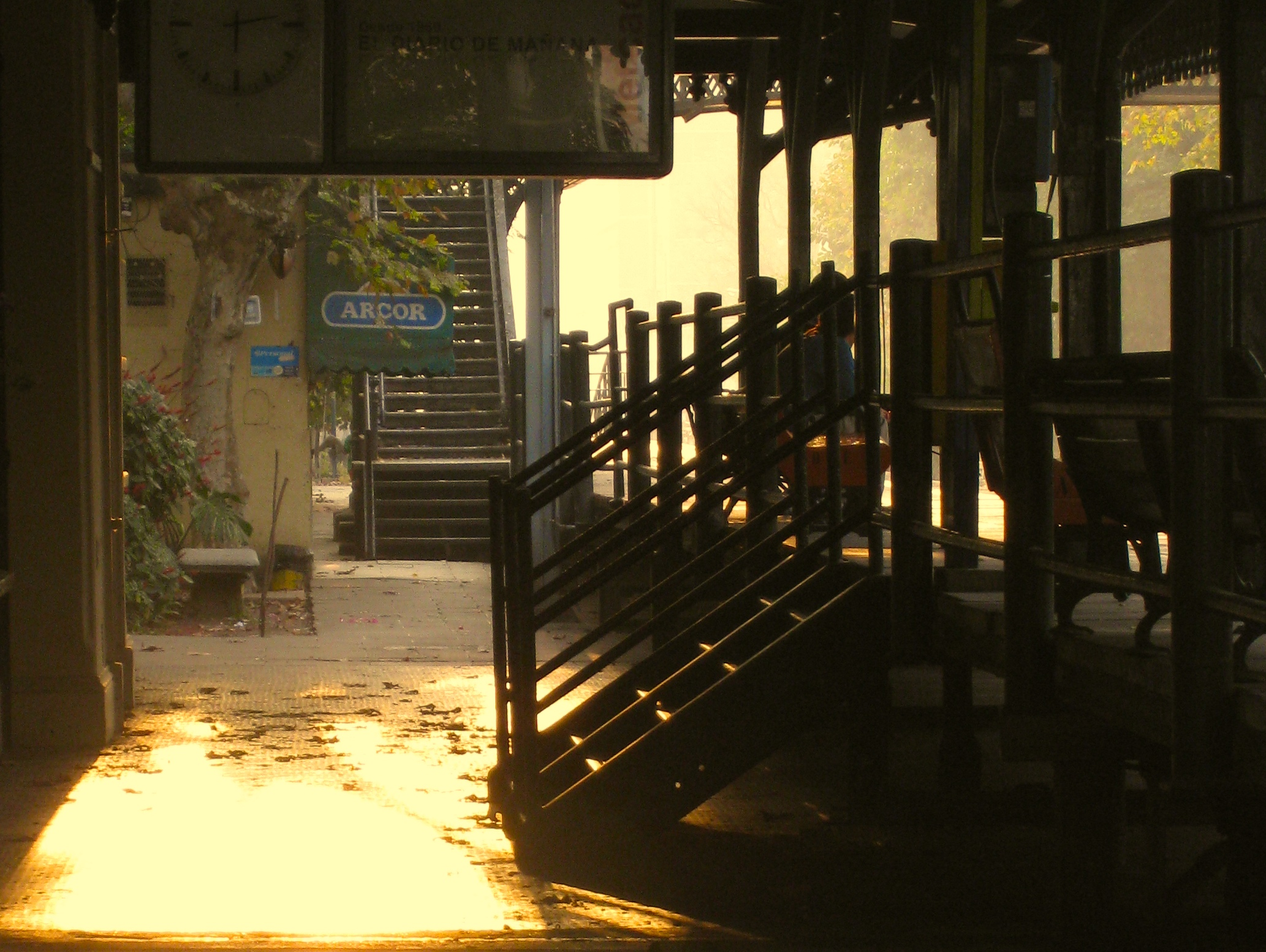 Reminiscent of British stations